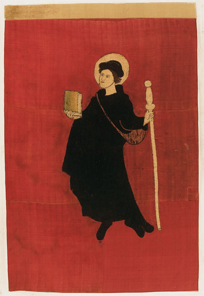 Banner of St. Fridolin on exhibit in the Freulerpalast, Näfels, Glarus. Allegedly the original banner used in the battle of Näfels 1388.